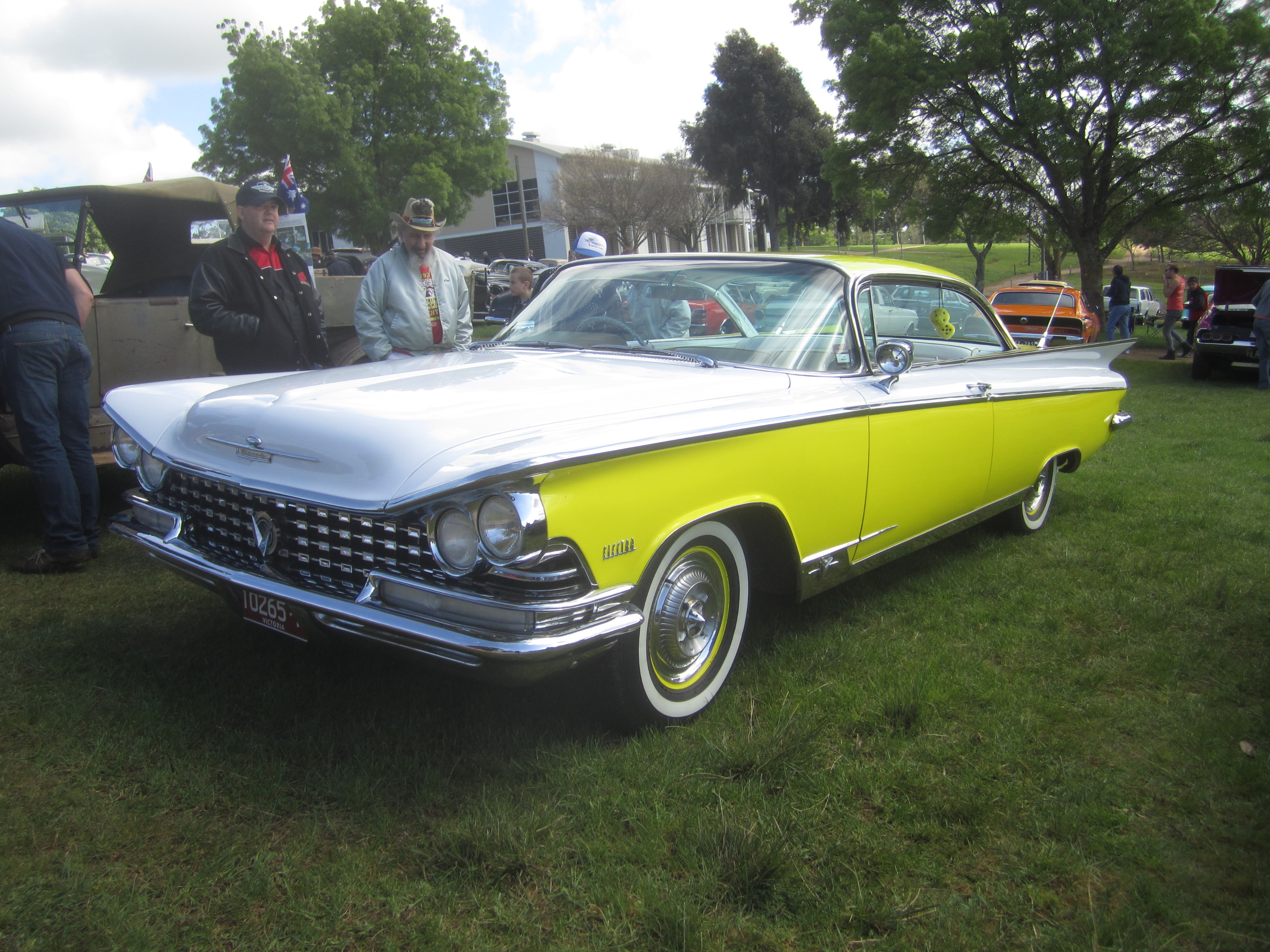 This model carried on from the Super and Roadmaster. This is the 1st year for the Electra, it carried on until 1990. Engine; 401cu in Nailhead V8